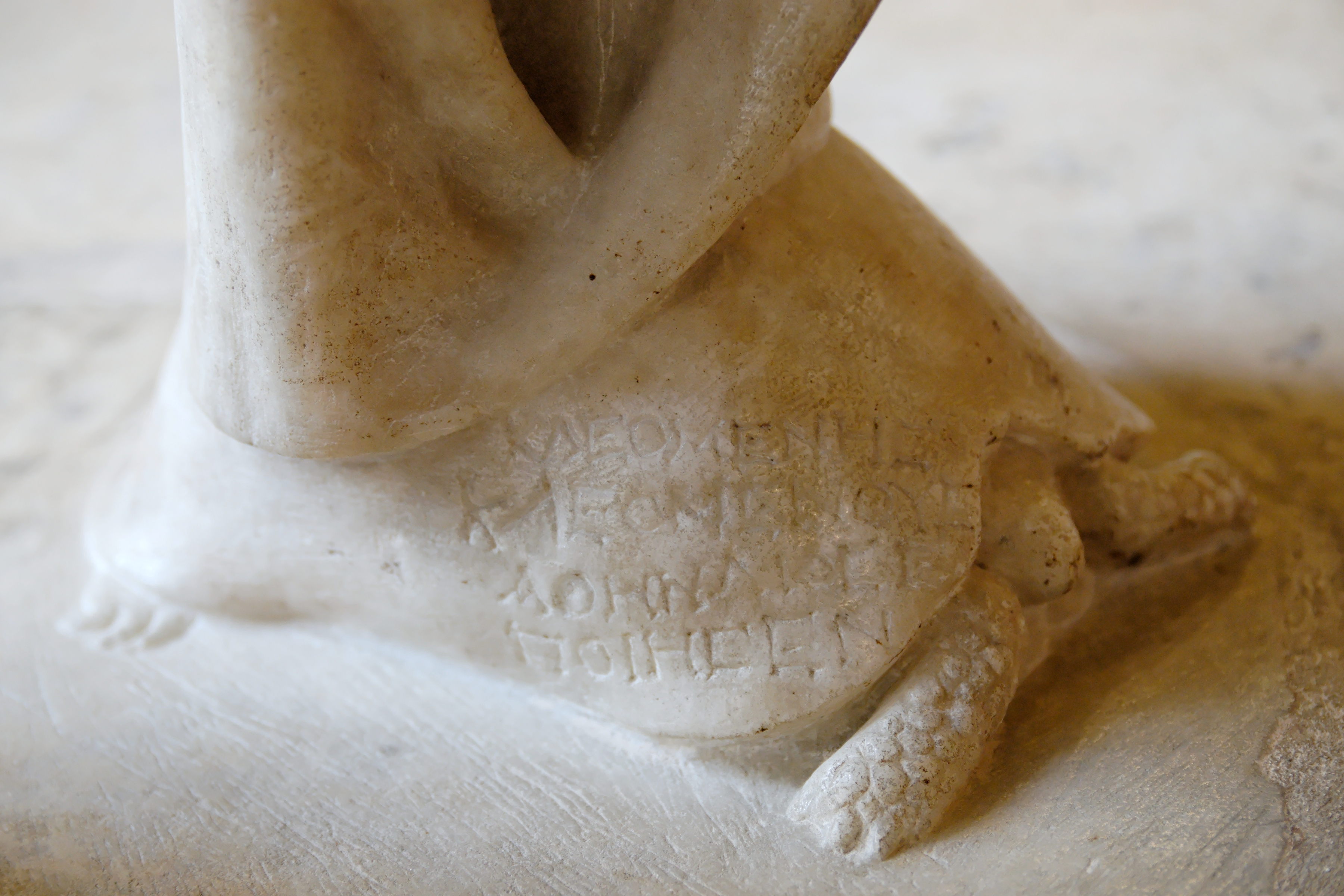 Detail of signature on a statue of Marcellus, formerly known as “Germanicus”, of the Hermes Ludovisi type. Greek marble, Roman artwork of the 1st century CE, after a 5th century BC prototype with substitution of a Roman portrait head.